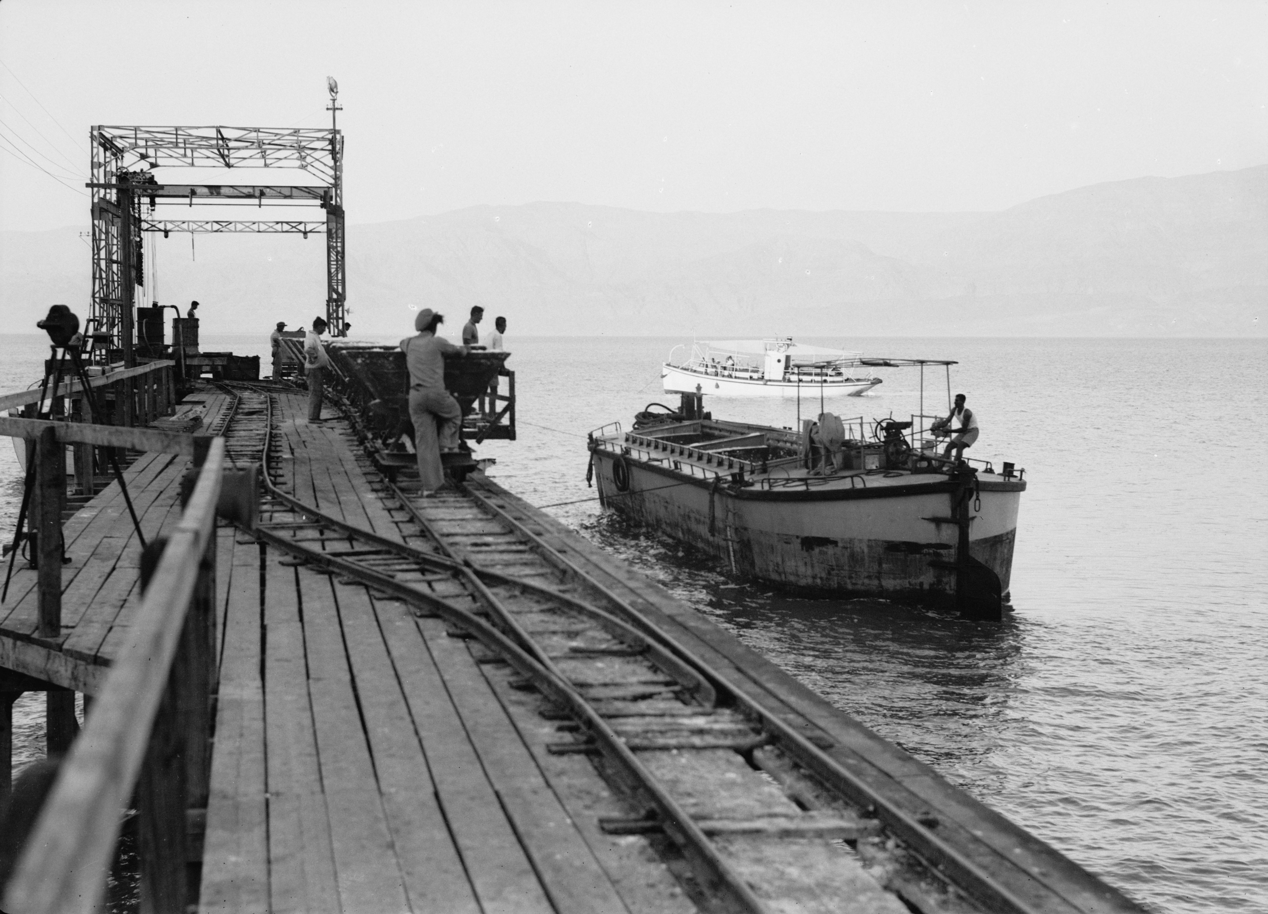 Title: Dead Sea Album, prepared for the Palestine Potash Ltd. The one hundred ton barge being pulled up to the Usdum pier to be loaded with potash for the North Abstract/medium: G. Eric and Edith Matson Photograph Collection Physical description: 1 negative